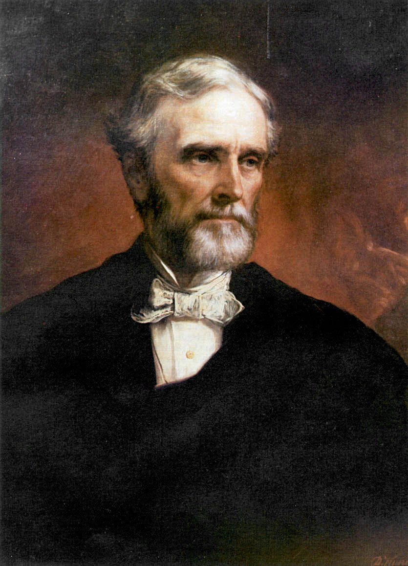 Jefferson Davis, painted by Daniel Huntington in en:1874